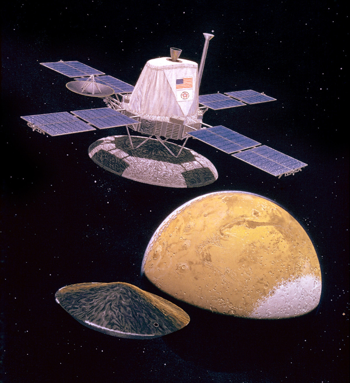 Artist's impression of the Viking Orbiter spacecraft. Artist's description: "The Viking Orbiter spacecraft releases the aeroshell clad lander near the 'high point' of it's orbit around Mars. The planet is shown based on Mariner 9 photography, oriented as it should appear during separation. Oil on canvas panel for NASA Headquarters."